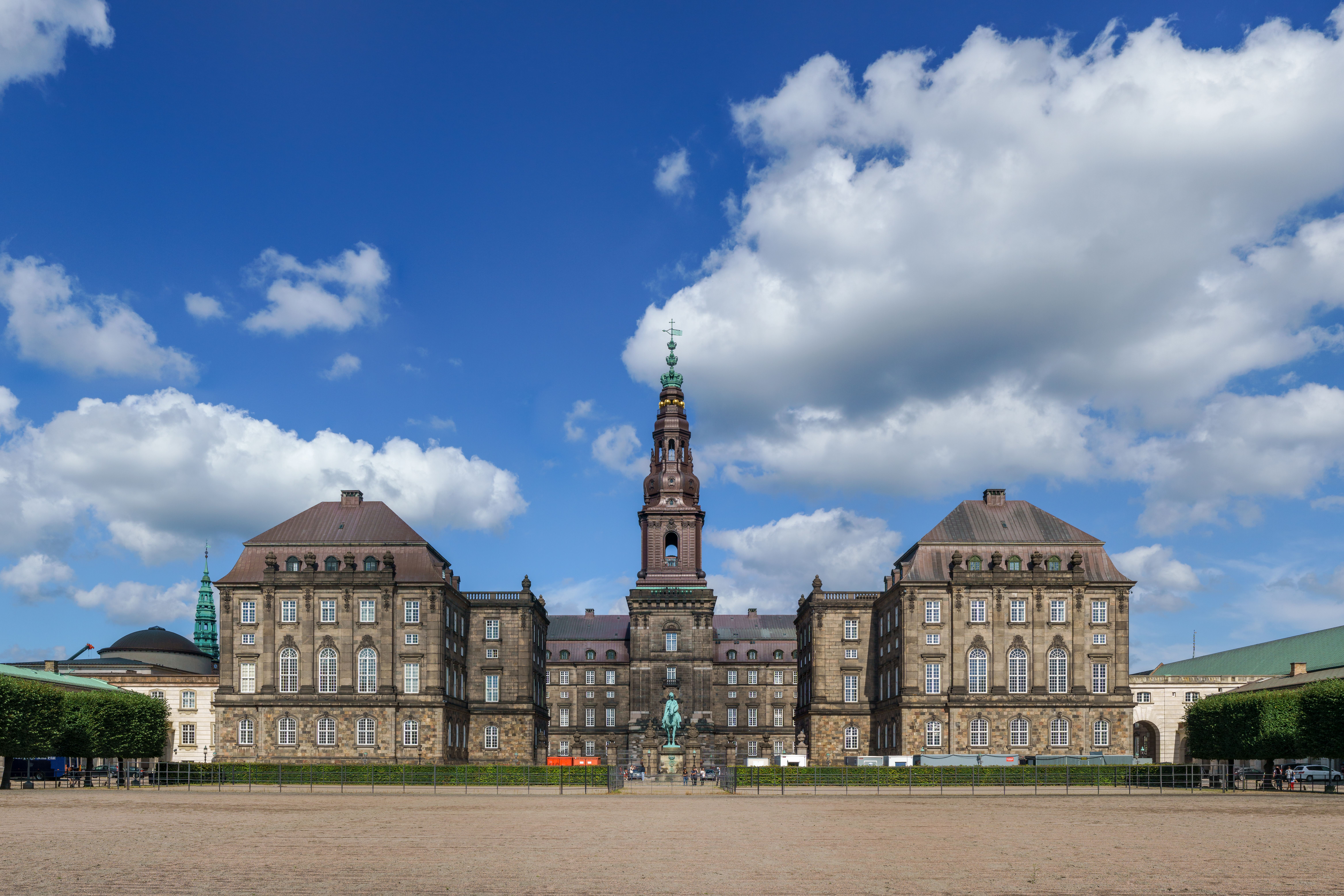 Christiansborg Palace in Copenhagen.